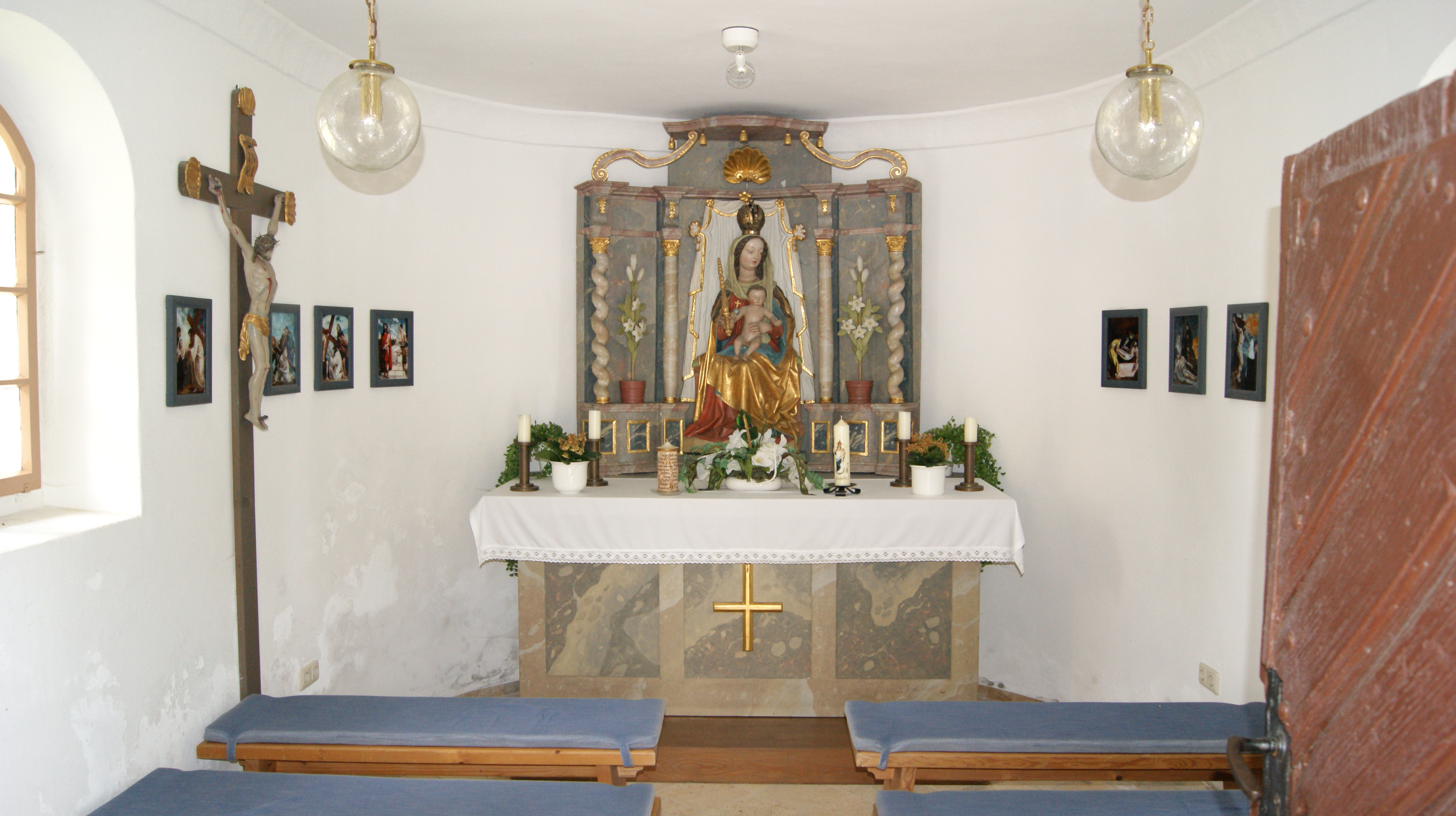 Chapel Am Anger near the "Katzbach" in Willmering in the administrative district of Cham in Bavaria from the year 1848th. Seated Mary with Jesus (about from the year 1500) This is a photograph of an architectural monument.